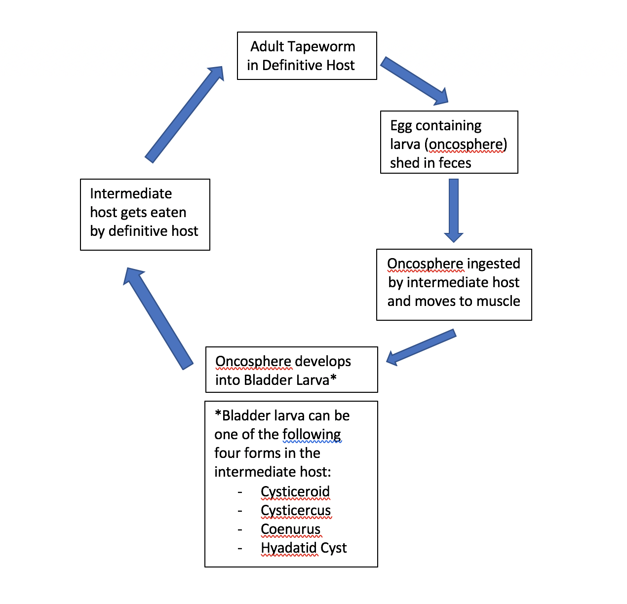 General life cycle for the Taxonomic Order to which this parasite this belongs to